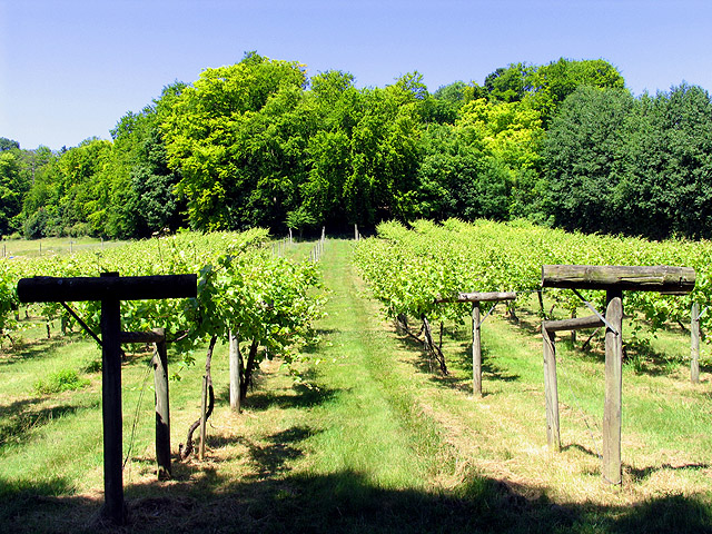 Vineyard at Bozedown near Whitchurch-on- Thames. Another view of the vineyard looking more or less north.